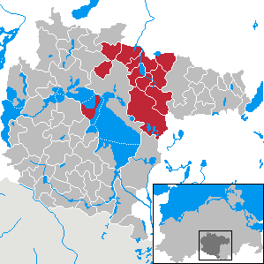 map of the former Amt Waren-Land in Mecklenburg-Vorpommern - District Müritz